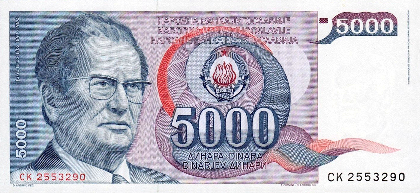 5000 Yugoslav dinars (1985)